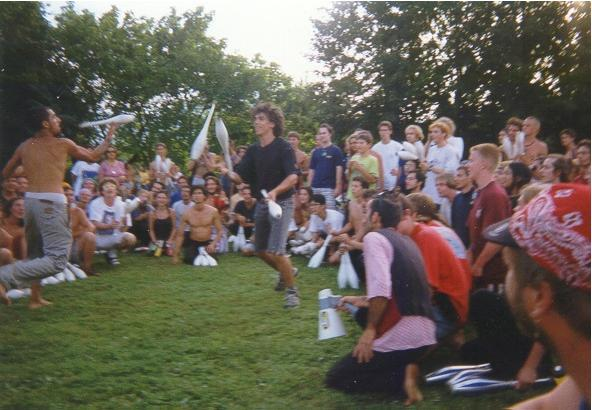 Juggling game: Gladiators